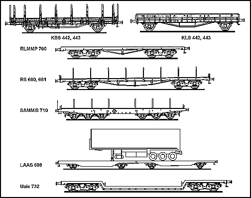 Figure 8-5. Freight Equipment (Foreign Service). Taken from the Army training manual shown, European freight railcars encountered by the US Armed Forces in Europe.